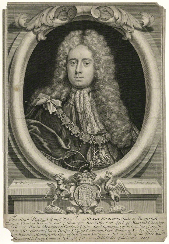 Portrait of Portrait of Henry Somerset, 2nd Duke of Beaufort (1684-1714)